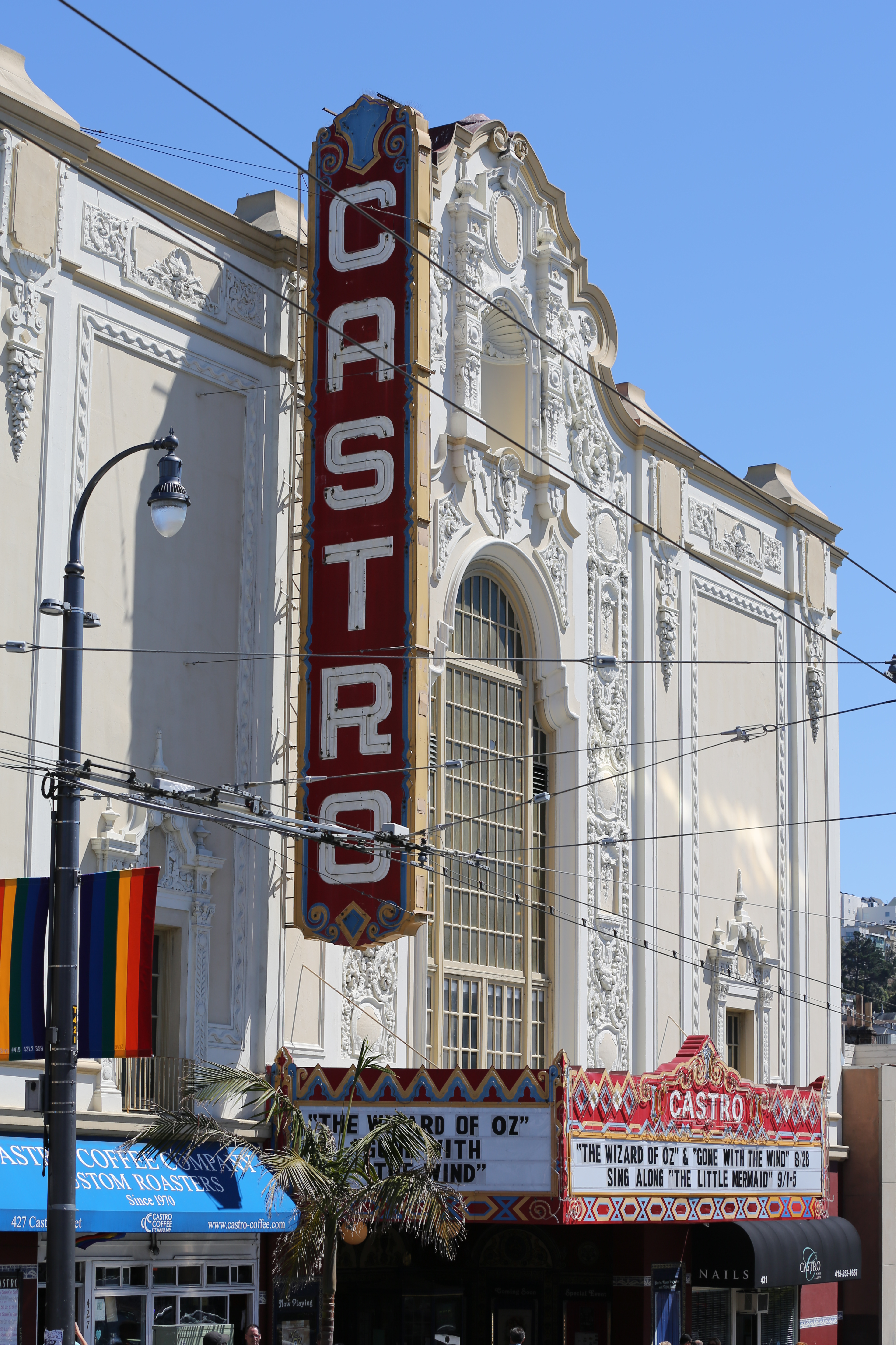 Castro Theatre in San Francisco (TK2)